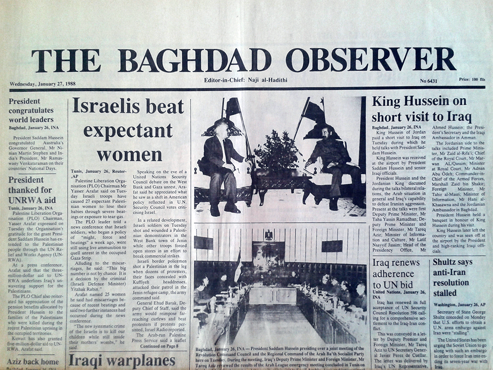 Frontapage of the daily newspaper "The Baghdad Observer", edited by Naji al-Hadithi (Naji Sabri)